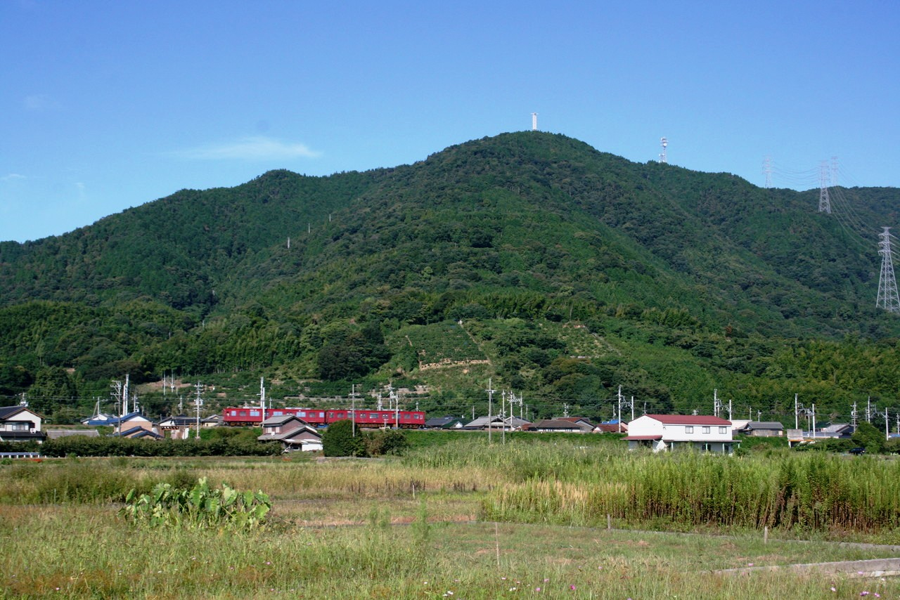 Mount_Tado_from_east